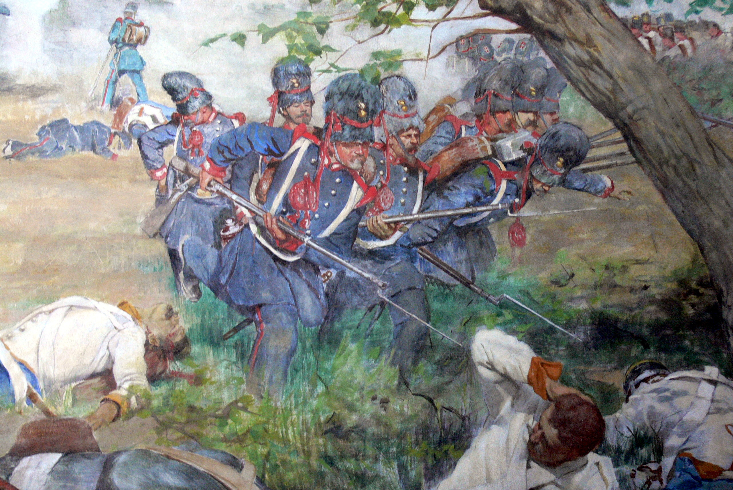 San Martino della Battaglia ( Italy ). Tower ( 1880 ) - Fresco showing the battle of Goito ( 1848 ) by Veronese di Stefano - detail.